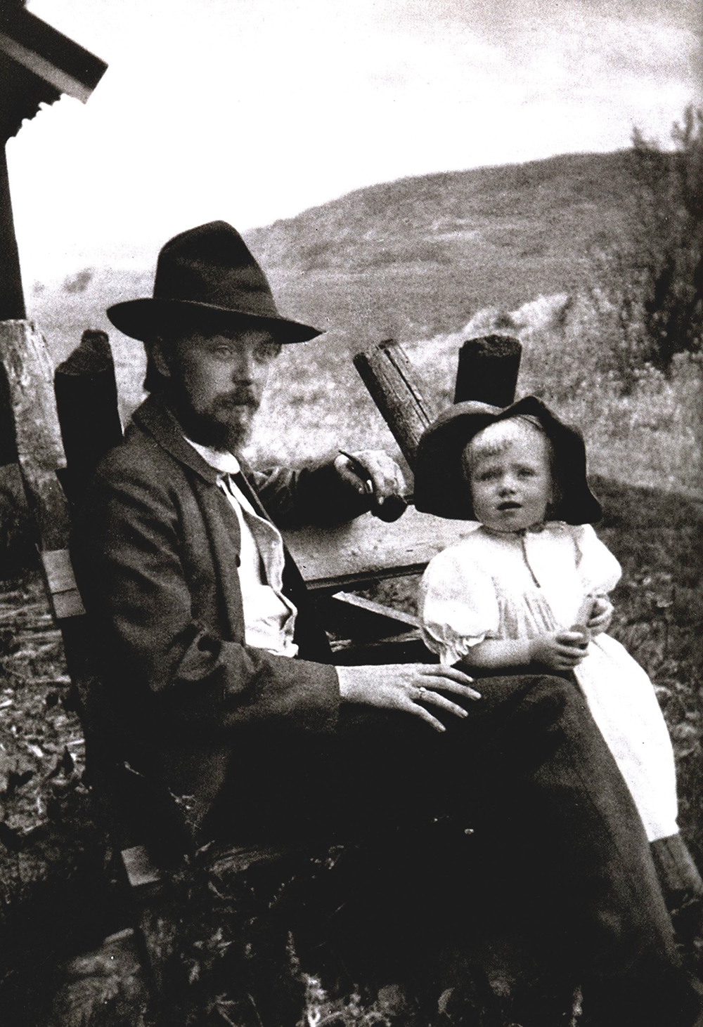 Ivar Arosenius (1878-1909) with daughter Eva "Lillan"